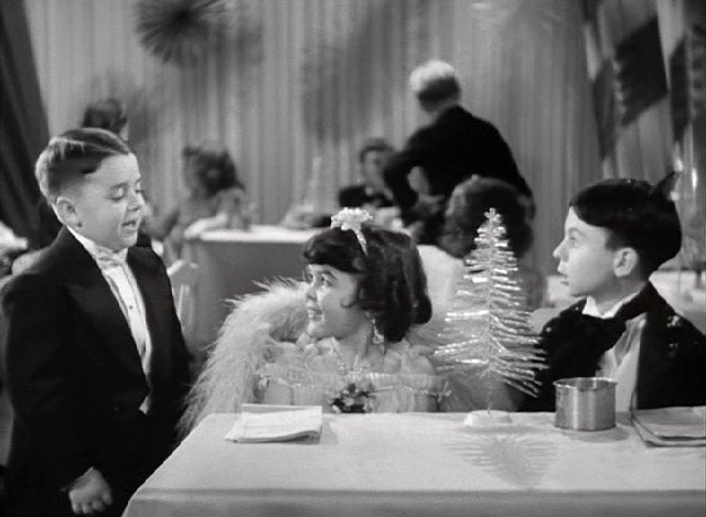 A screenshot from "Our Gang Follies of 1938," a 1937 Our Gang comedy. The film is in the public domain. This work is in the public domain because it was published in the United States between 1923 and 1963 and although there may or may not have been a copyright notice, the copyright was not renewed. Unless its author has been dead for the required period, it is copyrighted in the countries or areas that do not apply the rule of the shorter term for US works, such as Canada (50 pma), Mainland China (50 pma, not Hong Kong or Macao), Germany (70 pma), Mexico (100 pma), Switzerland (70 pma), and other countries with individual treaties. See Commons:Hirtle chart for further explanation.